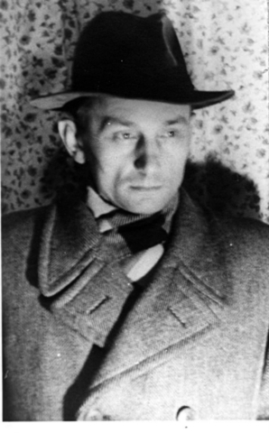 Mieczysław Justyna